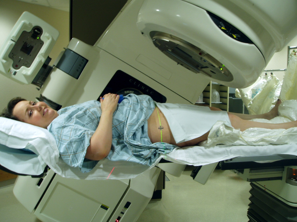 An image taken prior to beam delivery, during the time at which the beam is on only the patient is in the treatment room.